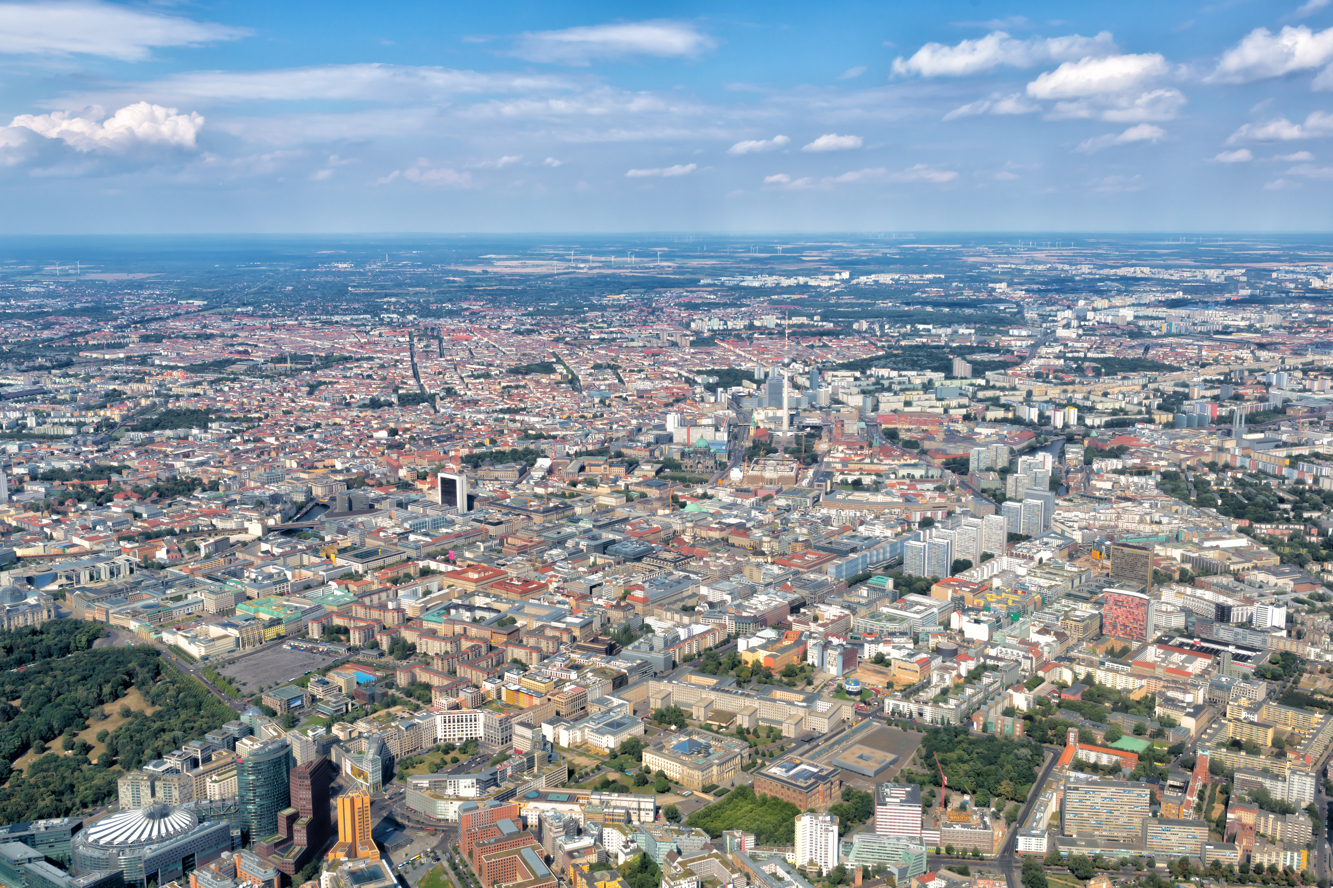 Aerial view over Berlin, 2016